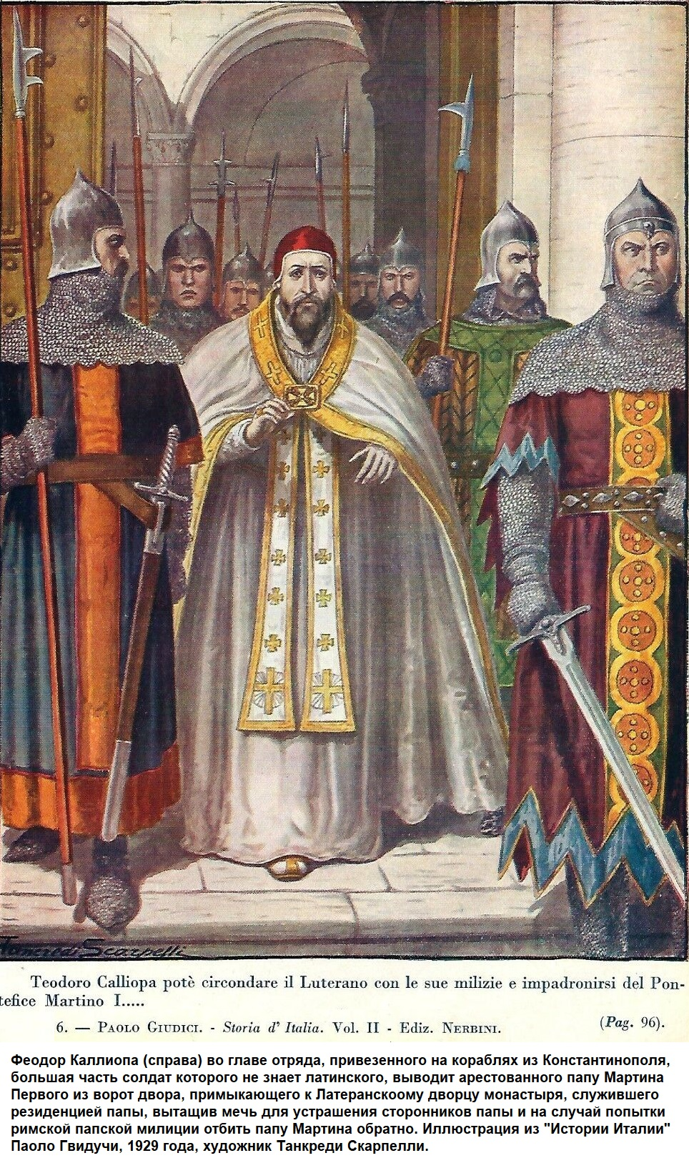 By order of the Byzantine emperor Constant II, the exarch of Ravenna Theodore Kalliope (right), at the head of a detachment brought on ships from Constantinople, most of whose soldiers do not know Latin, leads the arrested pope Martin the First out of the gate of the courtyard of monastery, adjacent to Lateran palace, which served as the residence of the pope (this small monastery will be closed and abandoned until Pope Gregory III, which will restore it again in 731-741). Kalliope holds a sword in hand to intimidate the pope's supporters and in case the Roman papal police attempt to recapture Pope Martin back.